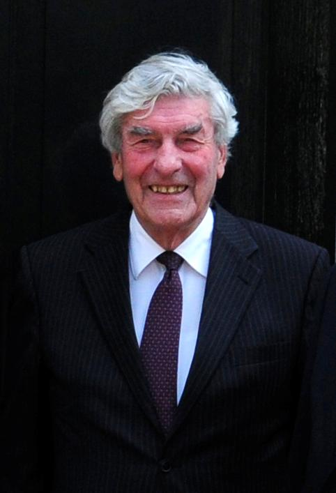 Former Prime Ministers Kok, Van Agt, De Jong, Lubbers and Balkenende with Prime Minister Rutte of The Netherlands